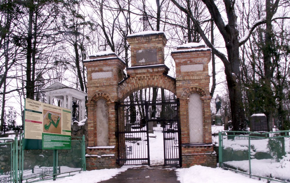 Old cemetery in Šiauliai, Lithuania